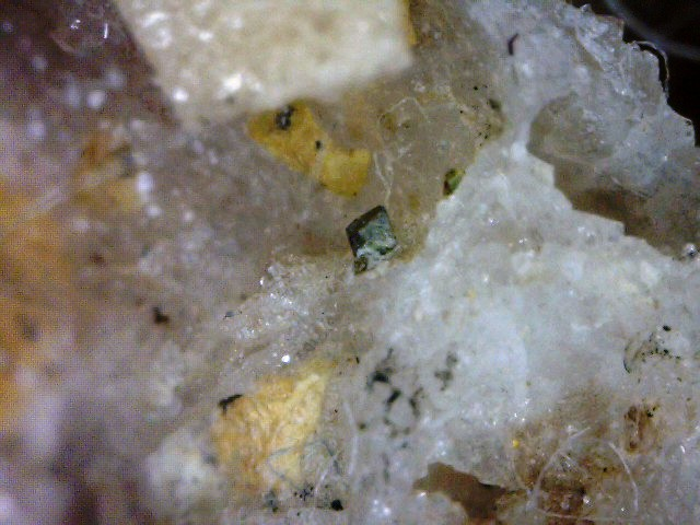 Vaesite Field of view: 3 mm Locality: Modena Province, Emilia-Romagna, Italy Octahedral Crystal Vaesite on matrix; Photo and collection Fernando Brederodes.